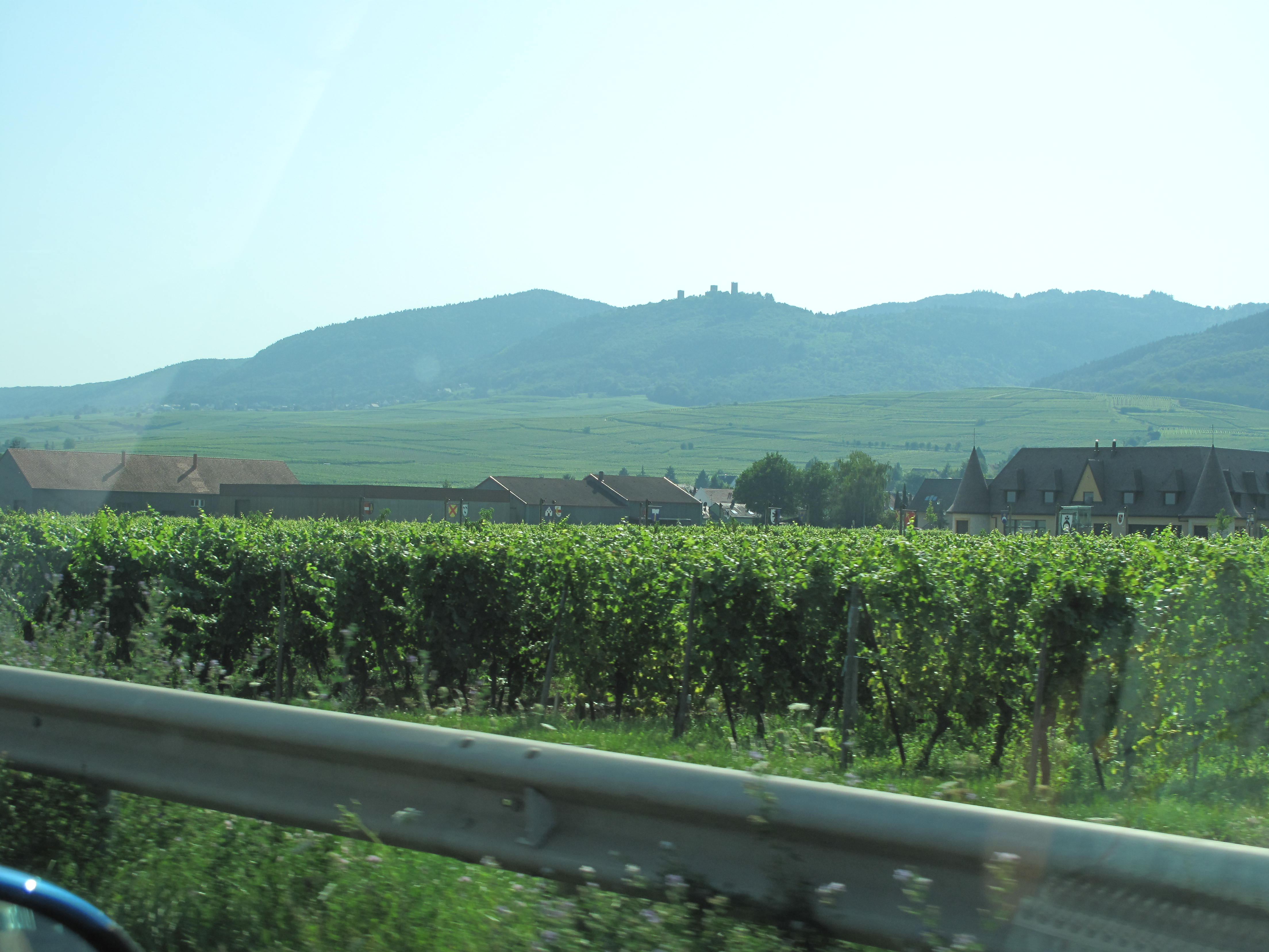 La ligne bleue des Vosges (="blue line of the Vosges mountains"). It was the symbol of the French province Alsace and Lorraine, lost by France after the defeat of 1870. (Vosges, France).